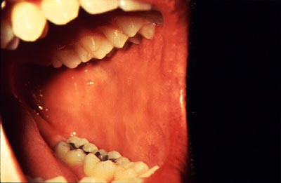 These images are part of the 2013 publication from the NIH "Detecting Oral Cancer: A Guide for Health Care Professionals". Available on the 15/7/14 at BUCCAL MUCOSA: (Figures 5 and 6) Retract the buccal mucosa. Examine first the right then the left buccal mucosa extending from the labial commissure and back to the anterior tonsillar pillar. Note any change in pigmentation, color, texture, mobility, and other abnormalities of the mucosa, making sure that the commissures are examined carefully and are not covered by the retractors during the retraction of the cheek.